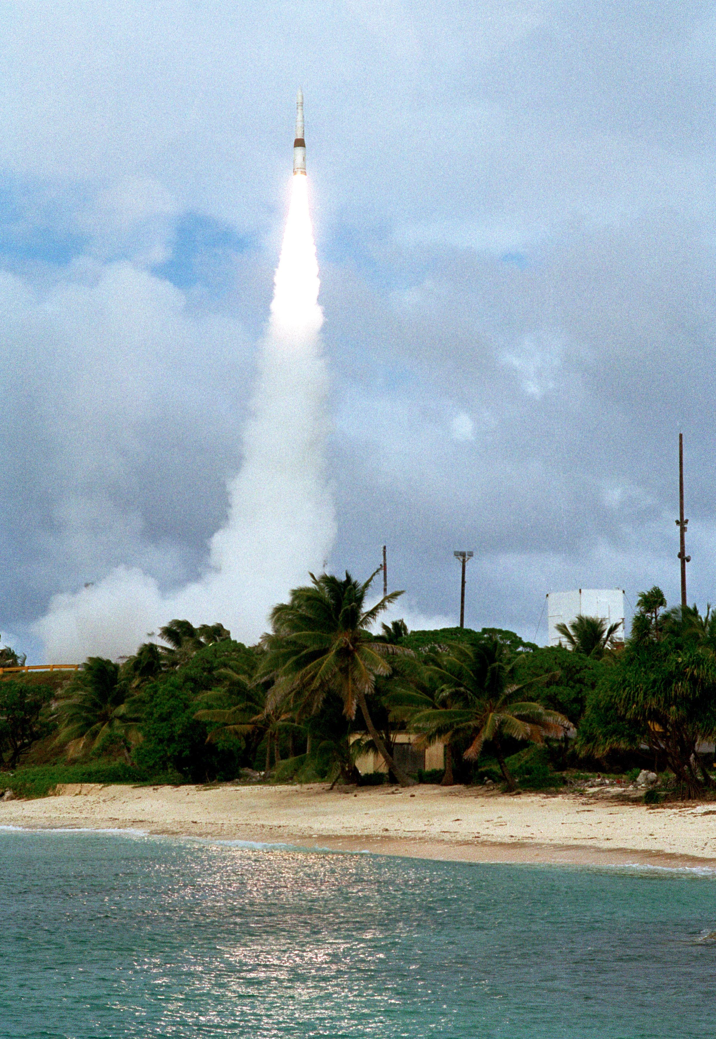 A payload launch vehicle carrying a prototype exoatmospheric kill vehicle is launched from Meck Island at the Kwajalein Missile Range on Dec. 3, 2001, for a planned intercept of a ballistic missile target over the central Pacific Ocean. The target vehicle, a modified Minuteman intercontinental ballistic missile, will be launched from Vandenberg Air Force Base, Calif. The interceptor is planned to hit the target more than 140 miles above the Earth during the midcourse phase of the warhead's flight.